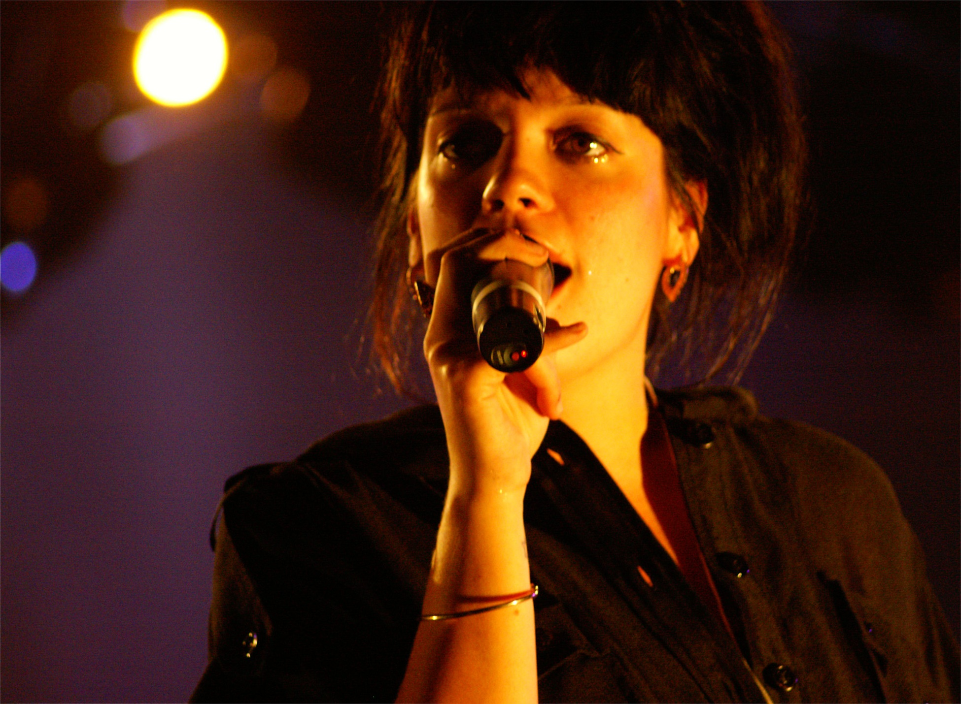 Lily Allen live at the Solidays festival (Paris, France).